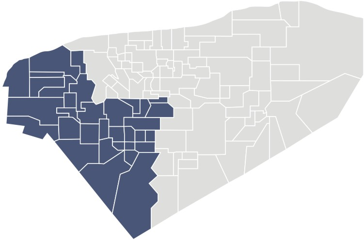 Map of the Fifth Federal Electoral District of the State of Yucatan, México.